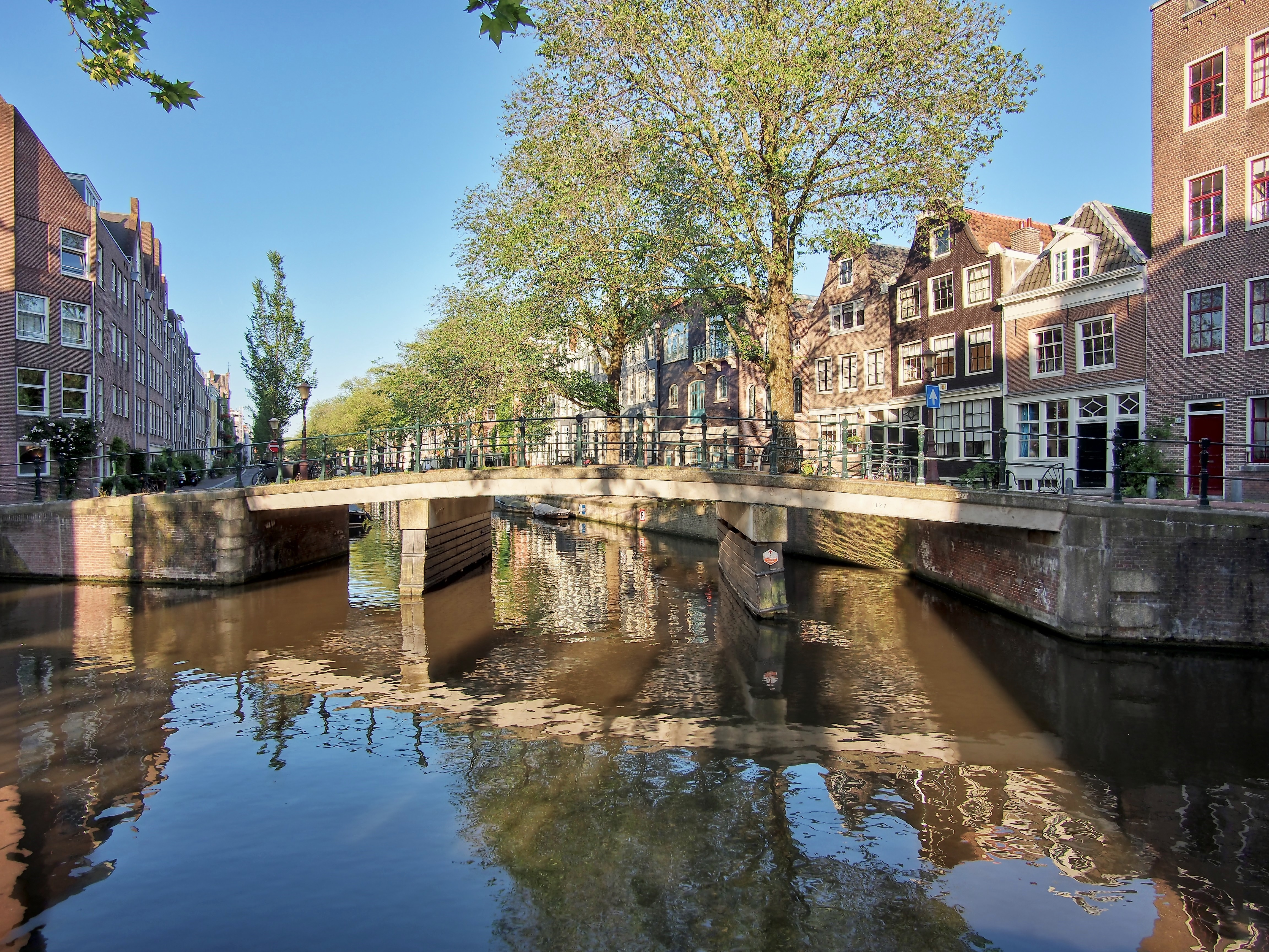 Photographed in Amsterdam.